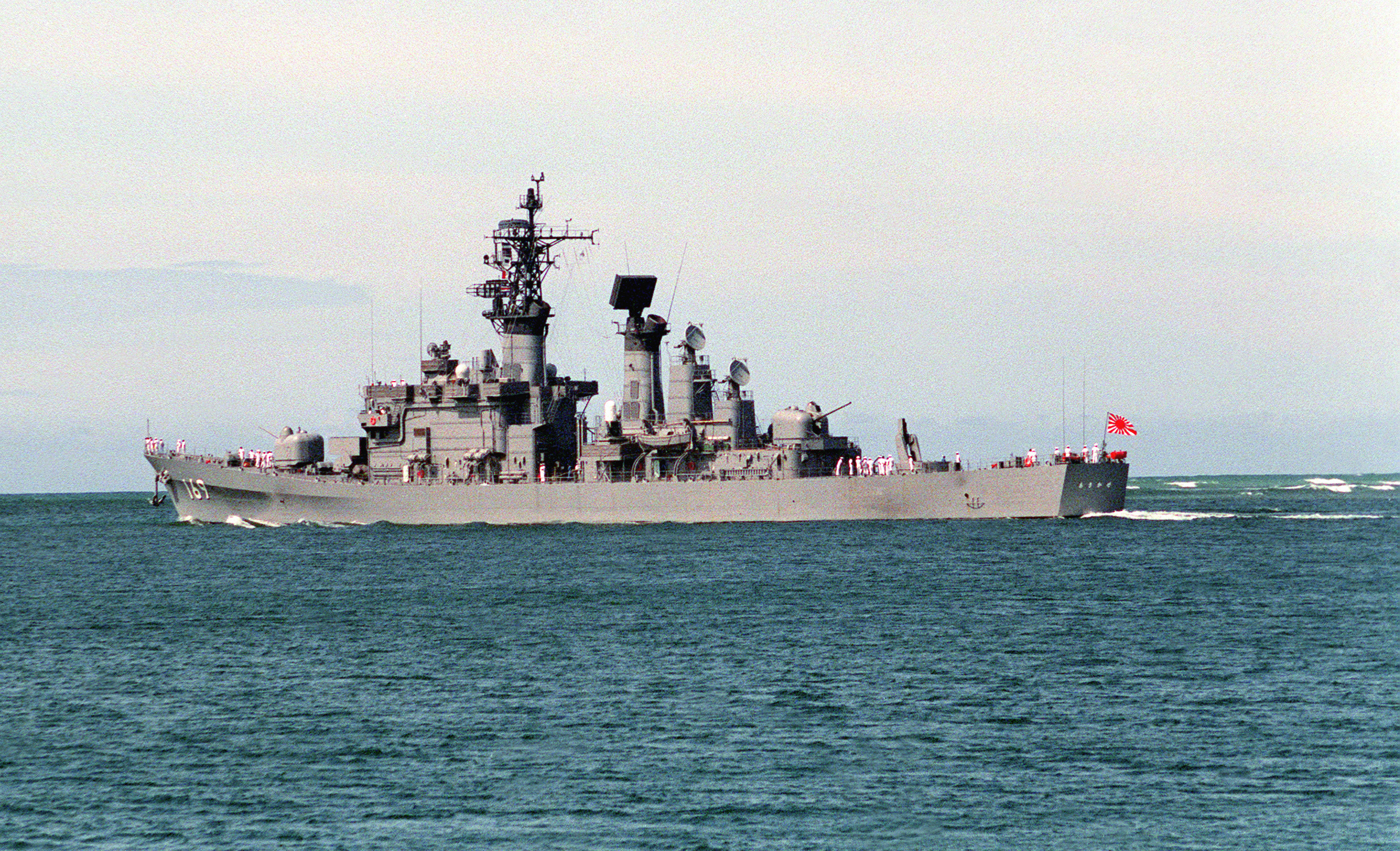 A port beam view of the Japanese destroyer Asakaze (DDG-169) underway off the coast of Hawaii during a visit of Japanese ships to Pearl Harbor.